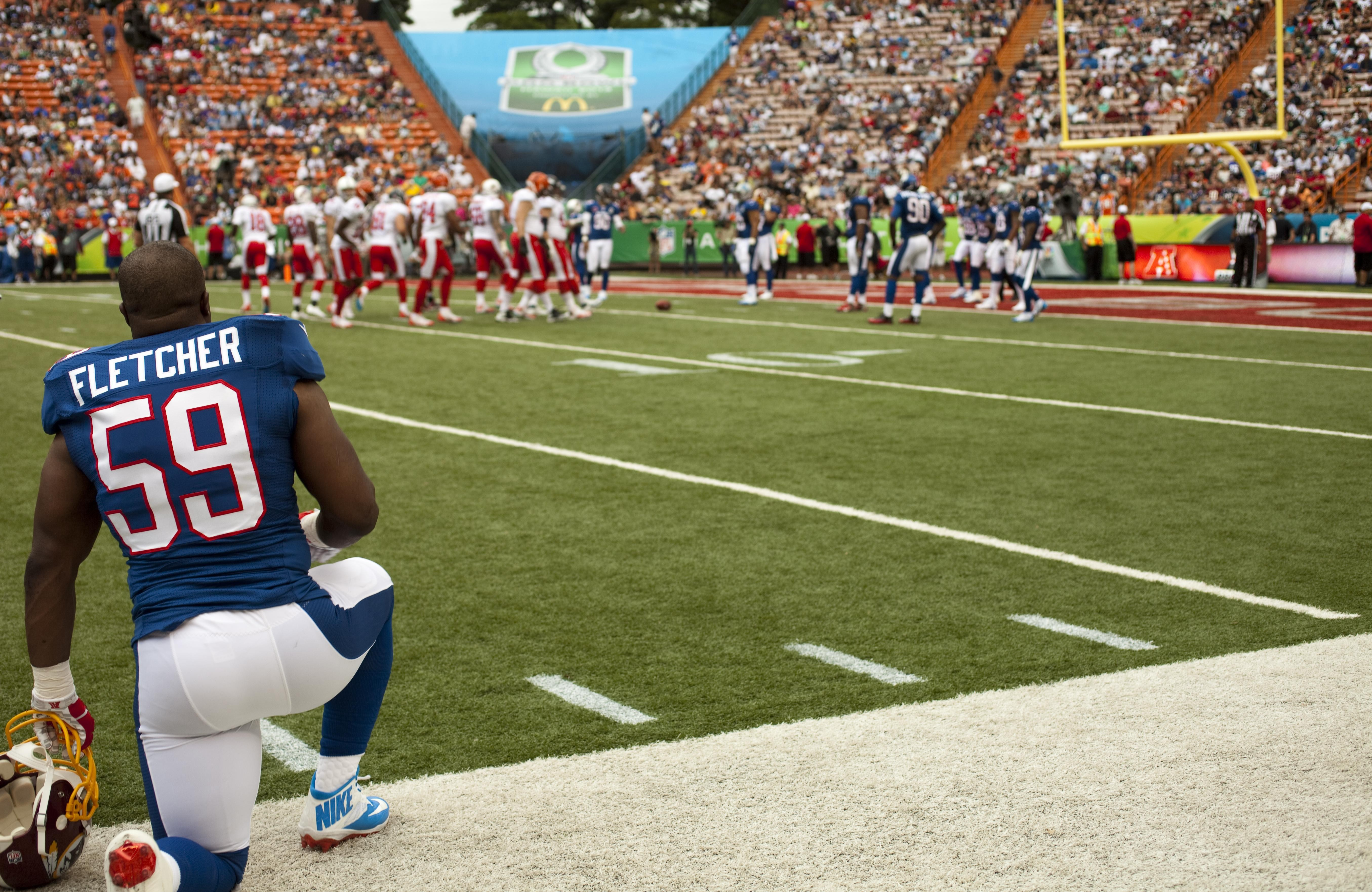 Washington Redskins linebacker, London Fletcher, on the sidelines at the 2013 Pro Bowl.